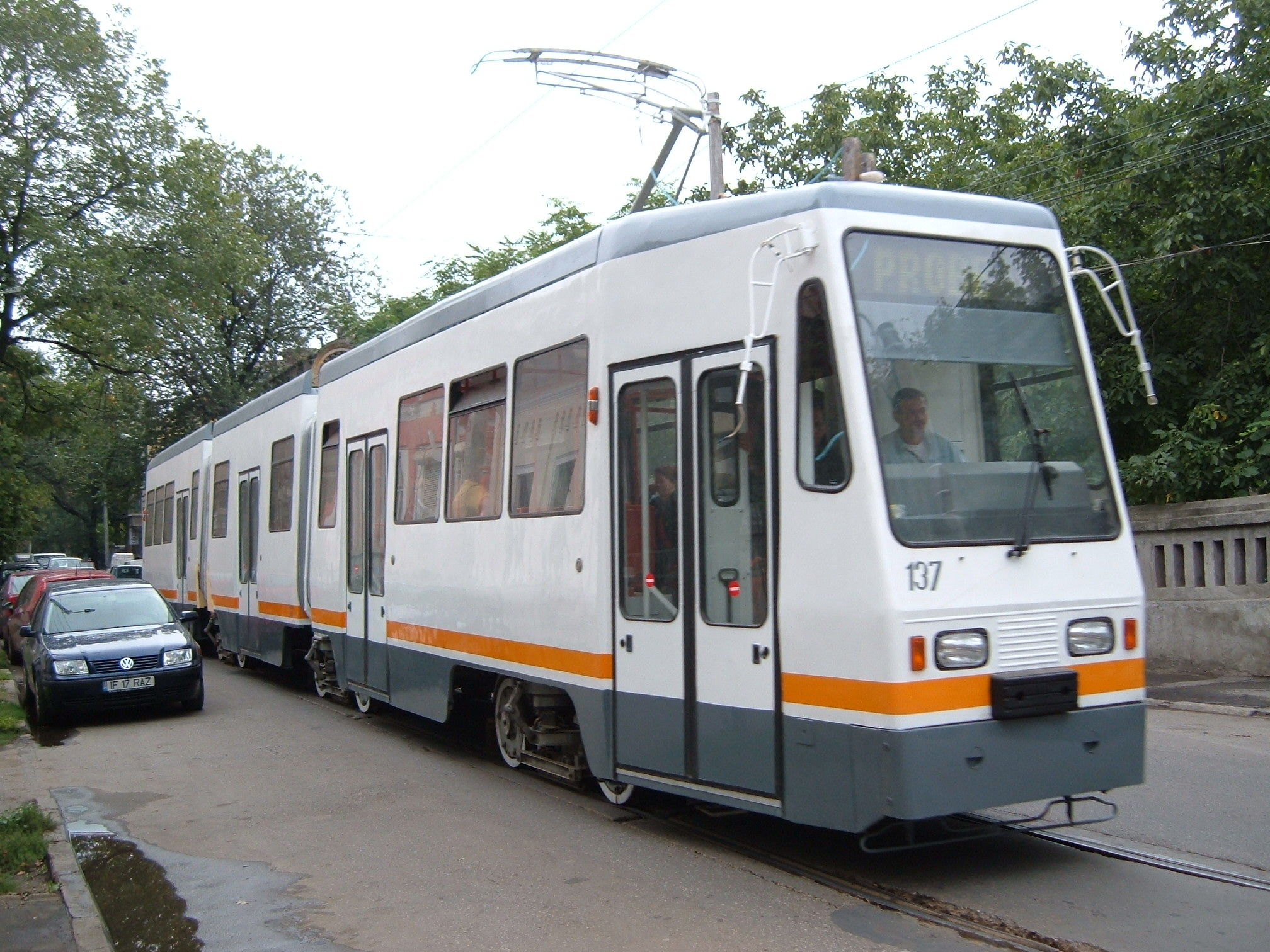 Tram in Bucharest, Romania (V3A-93M type). RATB București company.